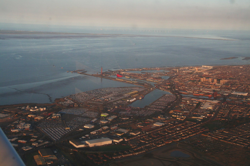 Grimsby, Alexandra Dock: aerial 2015